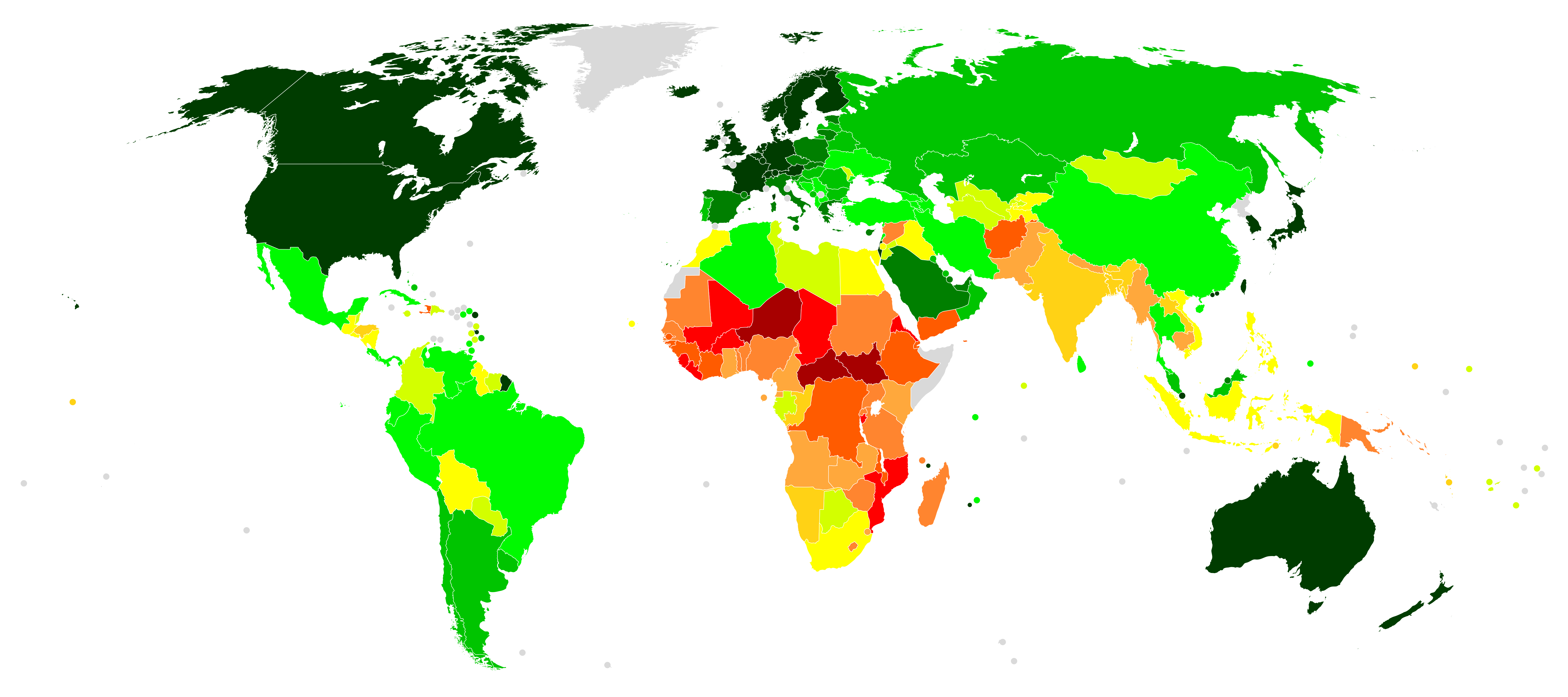 This is a choropleth map showing countries and territories by Human Development Index, based on data from the 2018 Human Development Report. Data for Macau is calculated by the Government of Macau, while data for Taiwan is calculated by the Government of Taiwan.